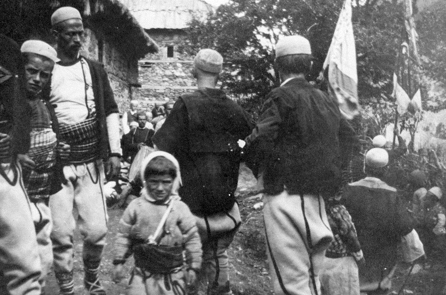 Macedonia. Arrival of a wedding party in Shtirovica.